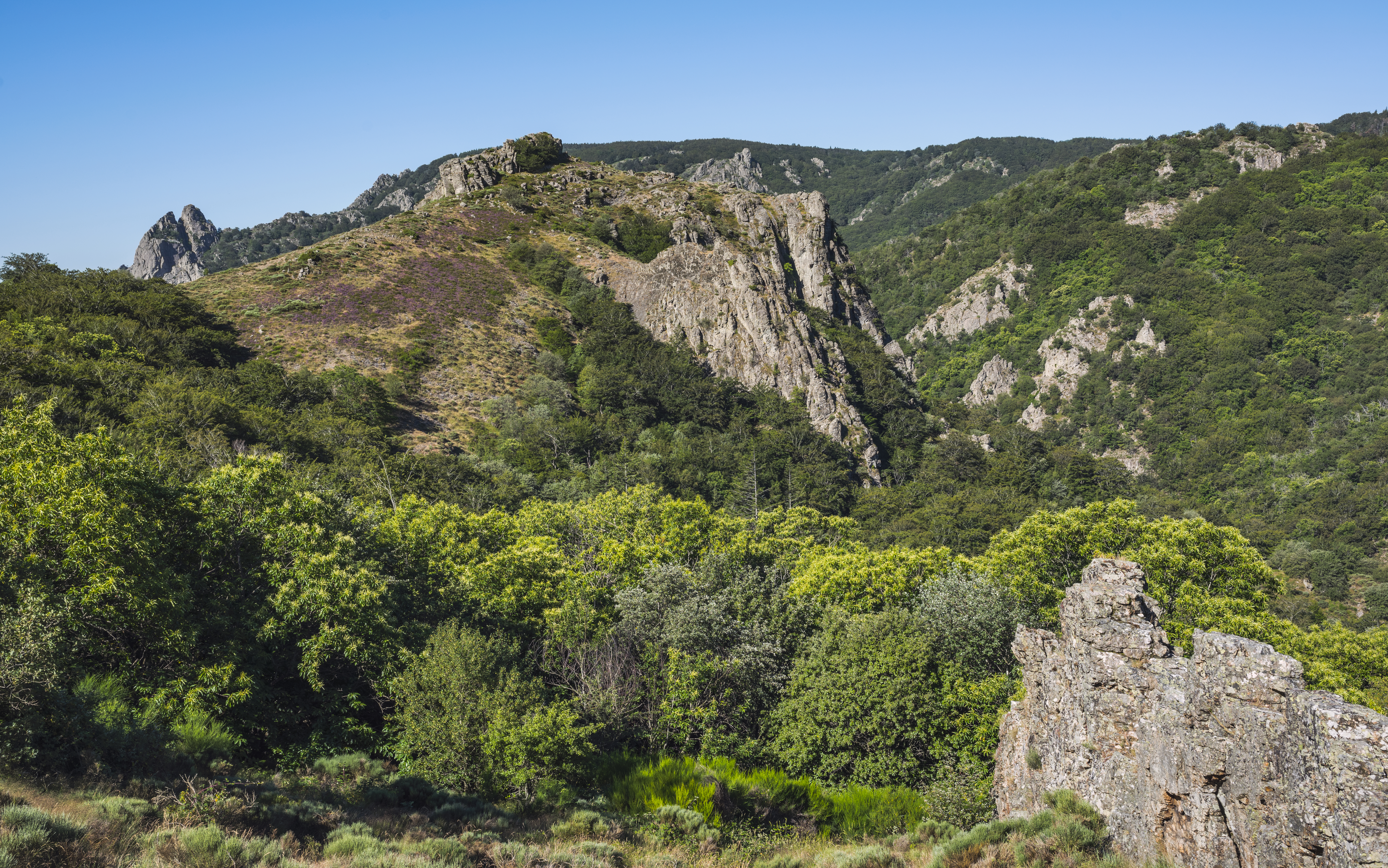 Roc du Mayne (886m), a rocky hill in the Haut-Languedoc Regional Nature Park. Commune of Rosis, Hérault, France